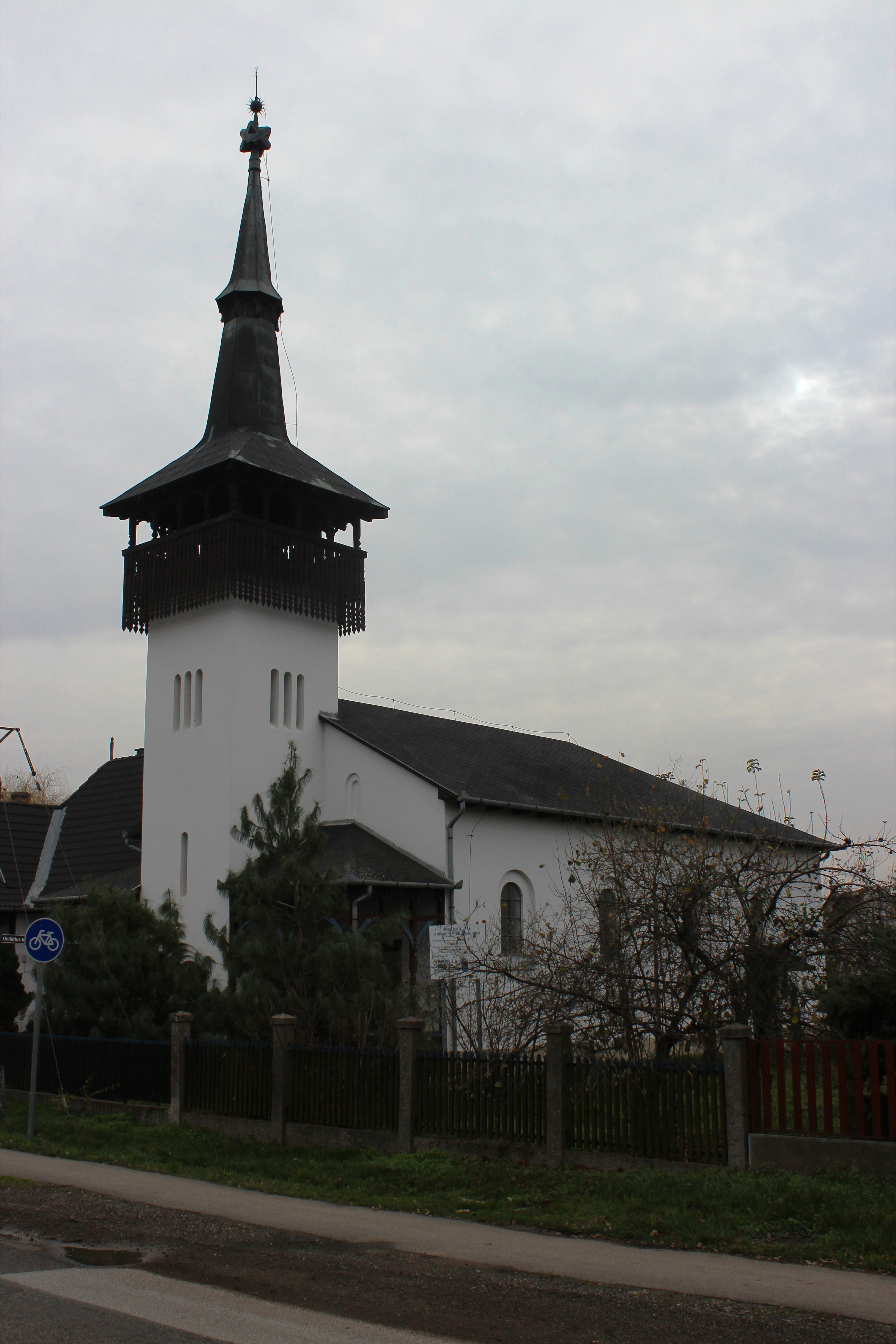 Unitarian church in Kocsord, Hungary This is a photo of a monument in Hungary, Identifier: 8281